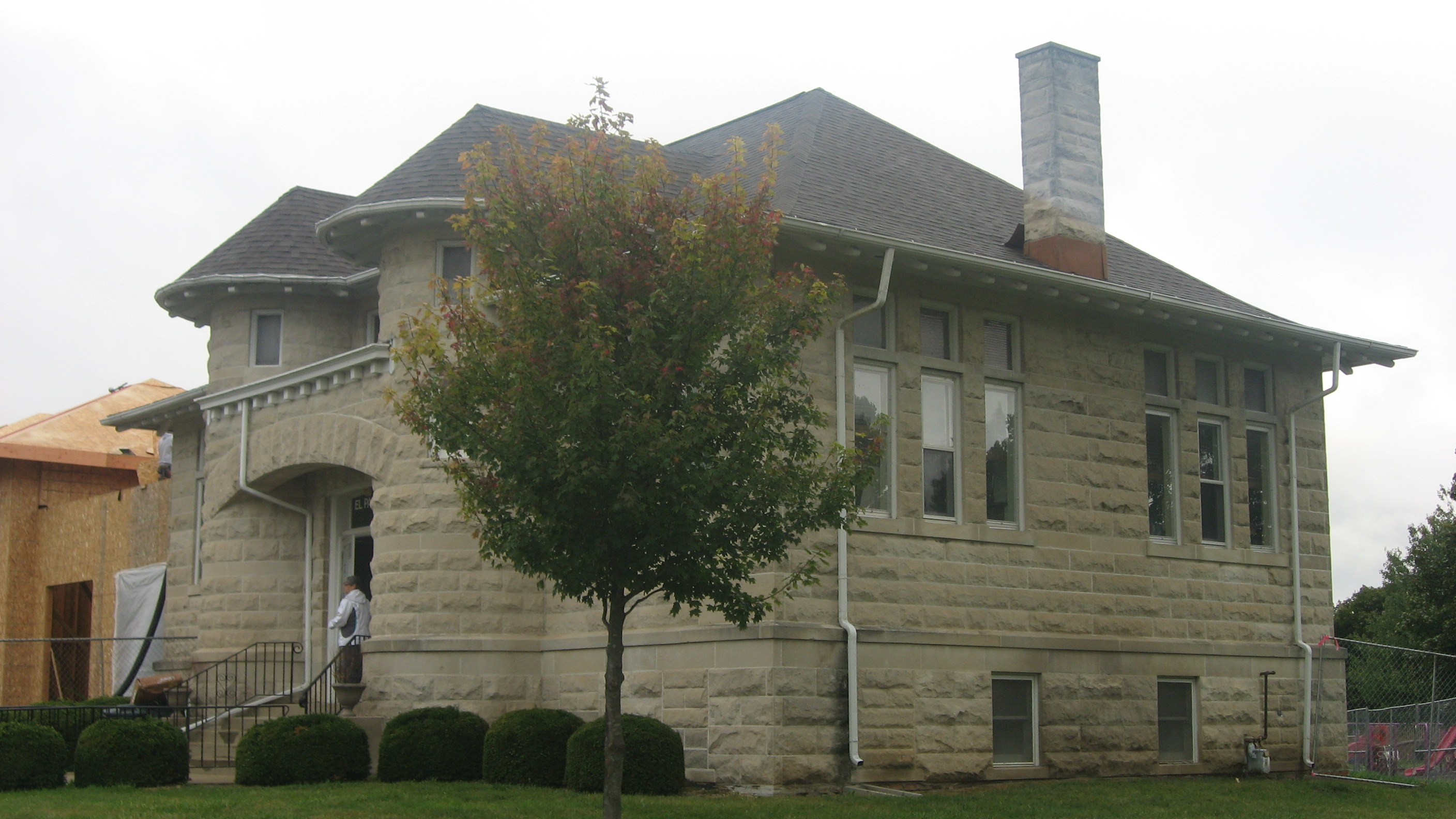 Front and eastern side of the El Paso Public Library, located at 149 W. First Street in El Paso, Illinois, United States. Built in 1906, it is listed on the National Register of Historic Places.